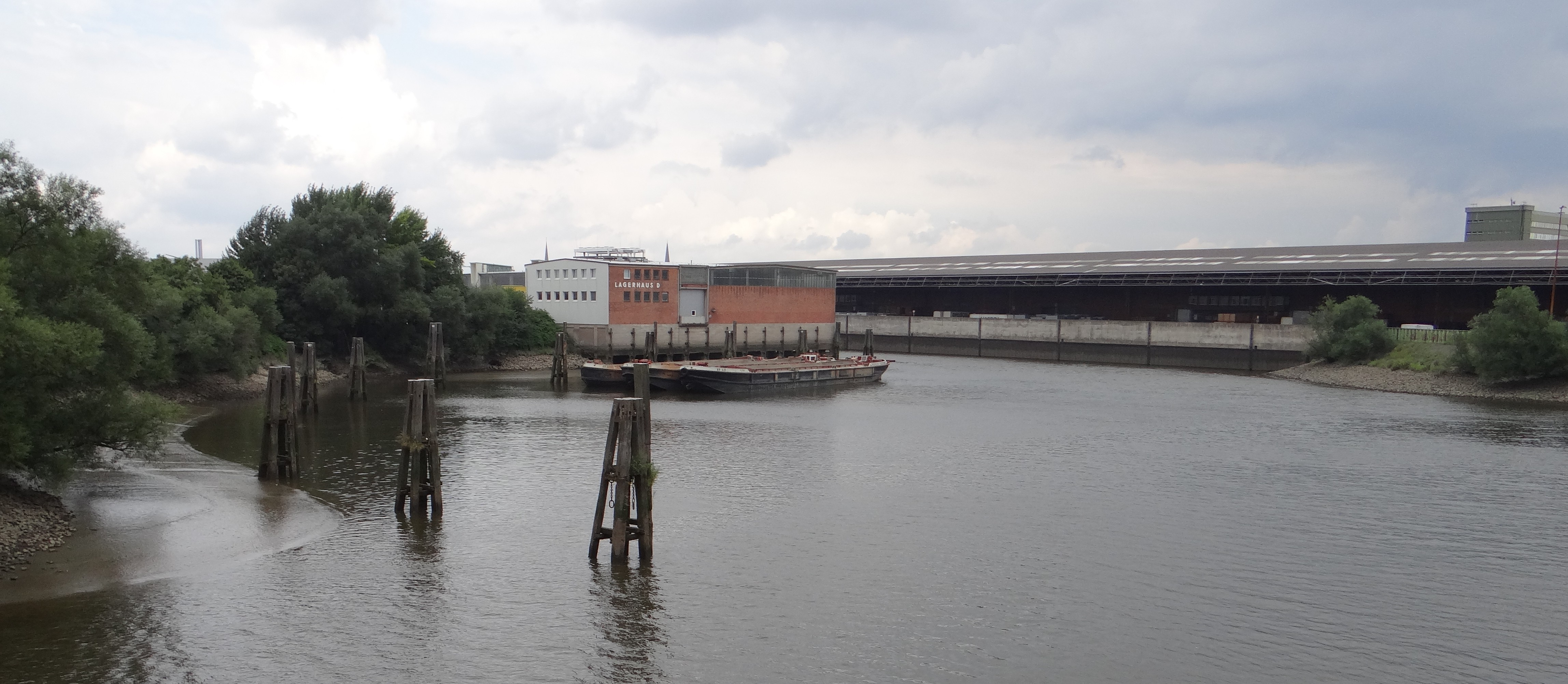 Harbour "Moldauhafen" in Hamburg, Germany.